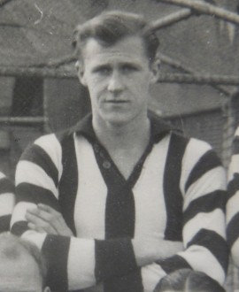 Photo of Phil Ryan from 1942-1945